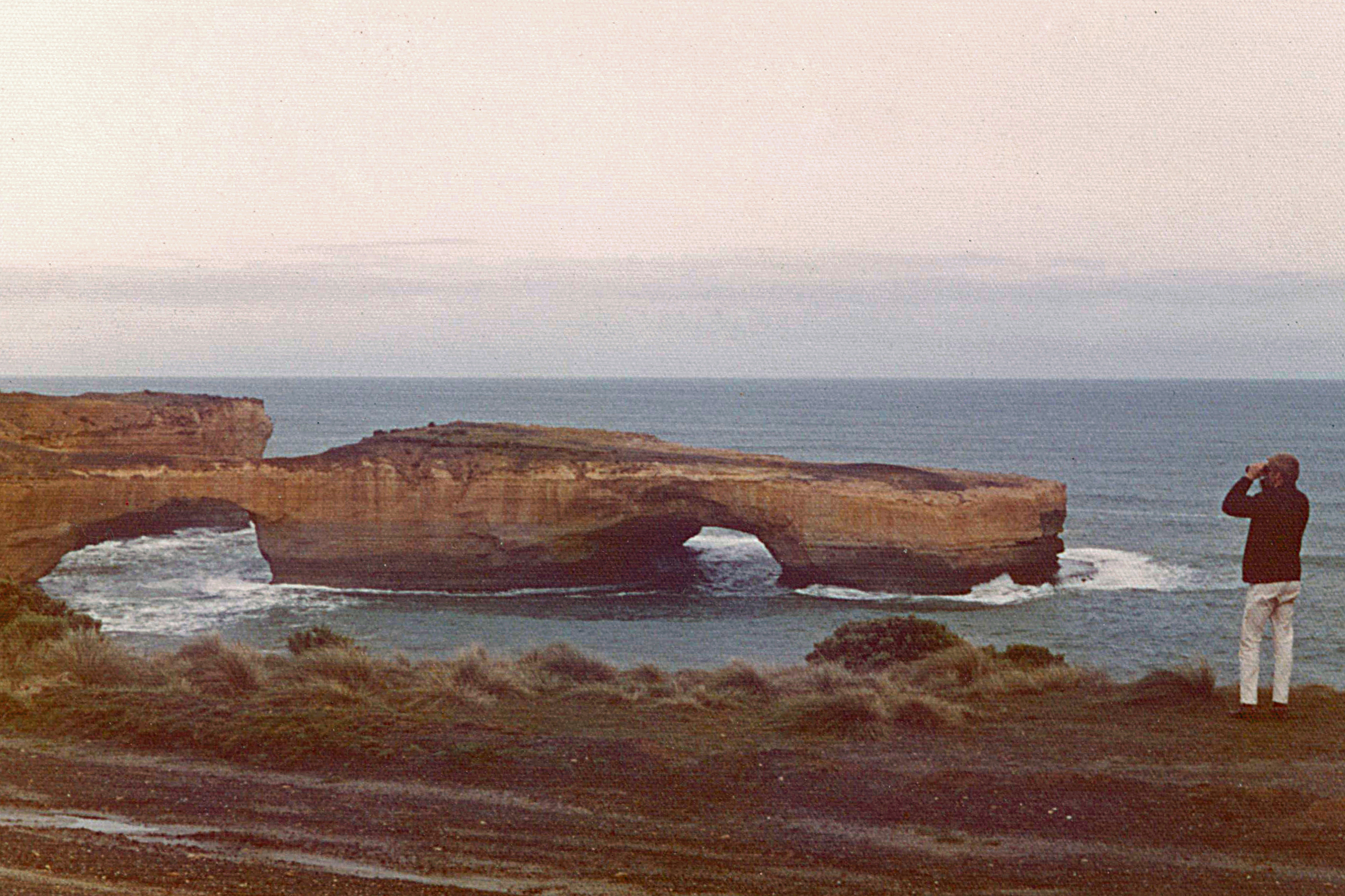 London Bridge near Port Campbell in Victoria, Australia taken in August 1973 before it collapsed in 1990